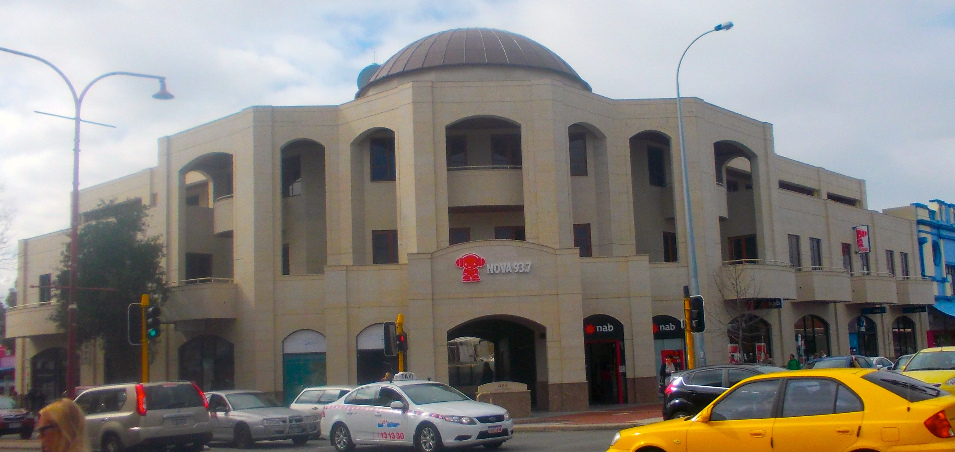 NOVA 93.7 offices on Rokeby Rd in Subaico, WA